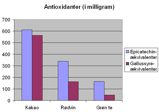 Diagram of antioxidants in cacao, red wine and green tea.